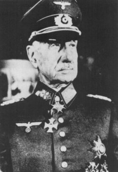 Generál Eduard von Böhm-Ermolli